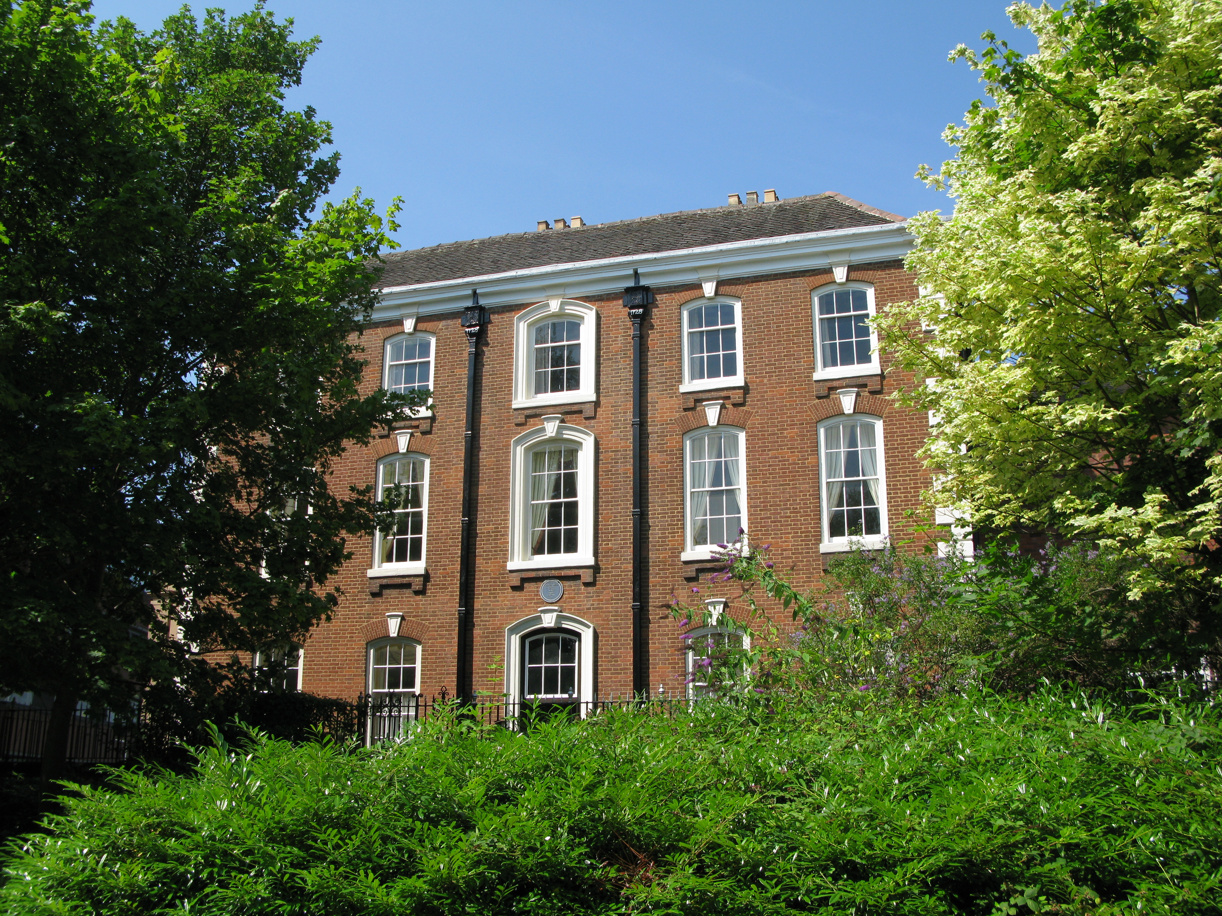 Giffard House, 51 North Street, Wolverhampton, West Midlands